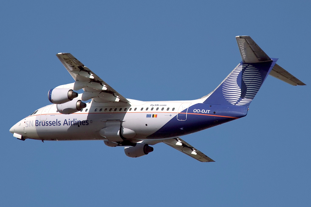 Photo copyright Tom Collins 2006. SN Brussels Airlines Avro RJ85 (OO-DJT) departing Bristol International Airport.